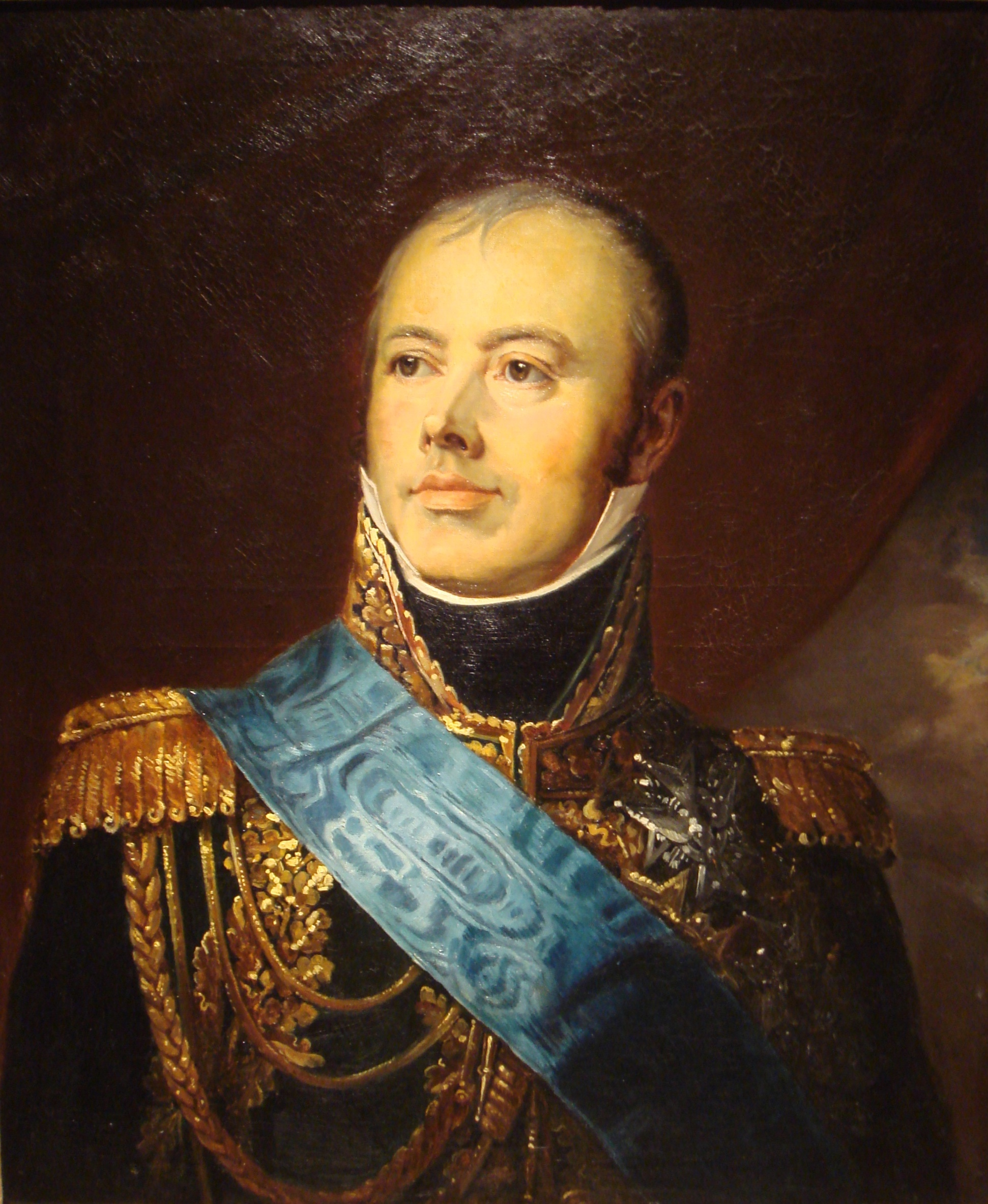 Portrait of Jacques MacDonald (1770-1837)